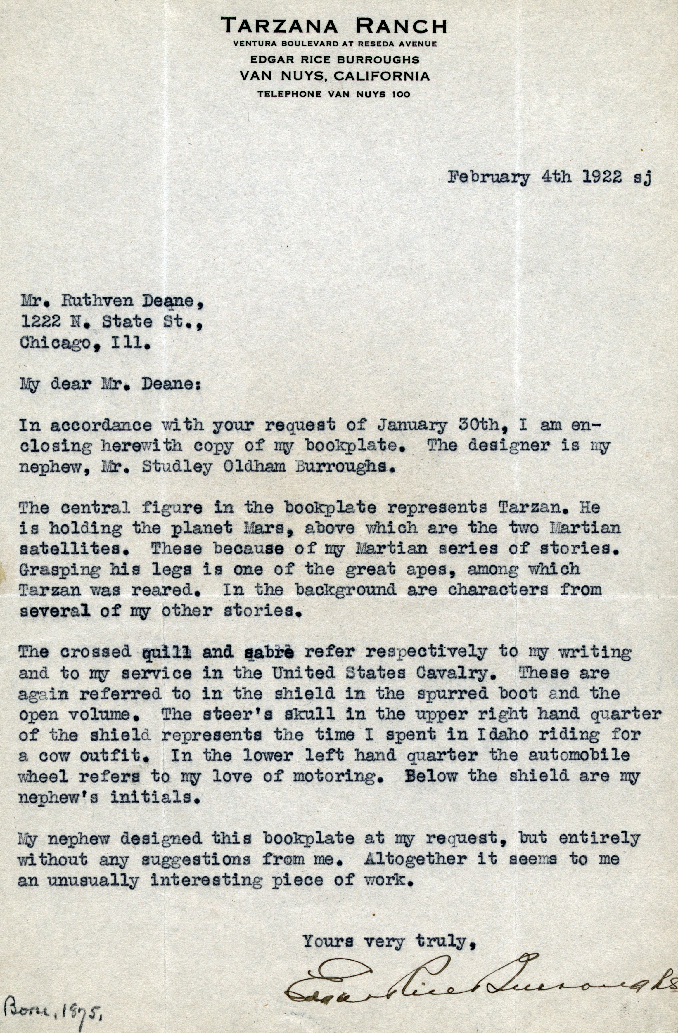 Typescript letter, with Tarzana Ranch letterhead, from American writer Edgar Rice Burroughs (1875-1950) to ornithologist Ruthven Deane (1851-1953) in which he explains the design and significance of his bookplate.Associated media: File:Bookplate of Edgar Rice Burroughs.jpg.